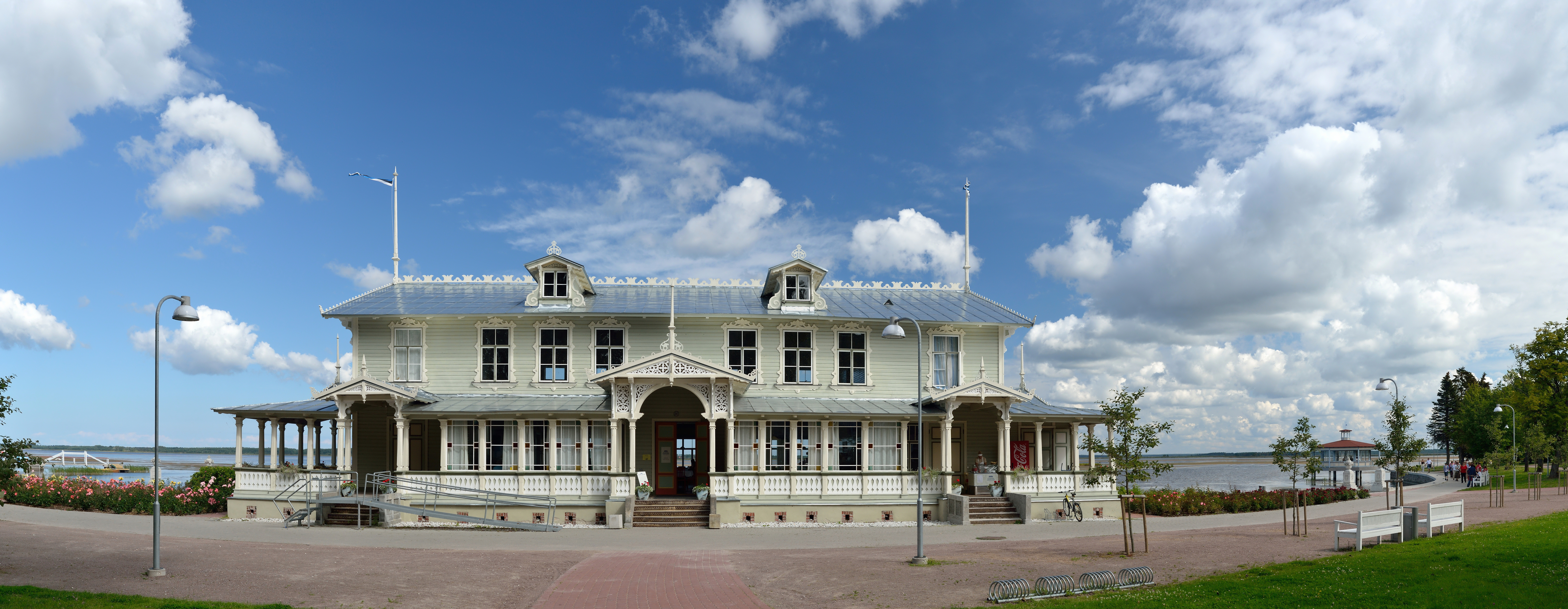 Haapsalu resort hall, built in the end of 19. century. It was one of the most important buildings in Haapsalu in first half of 20. century (it had a concert hall, a restaurant, a library and a hotel.)